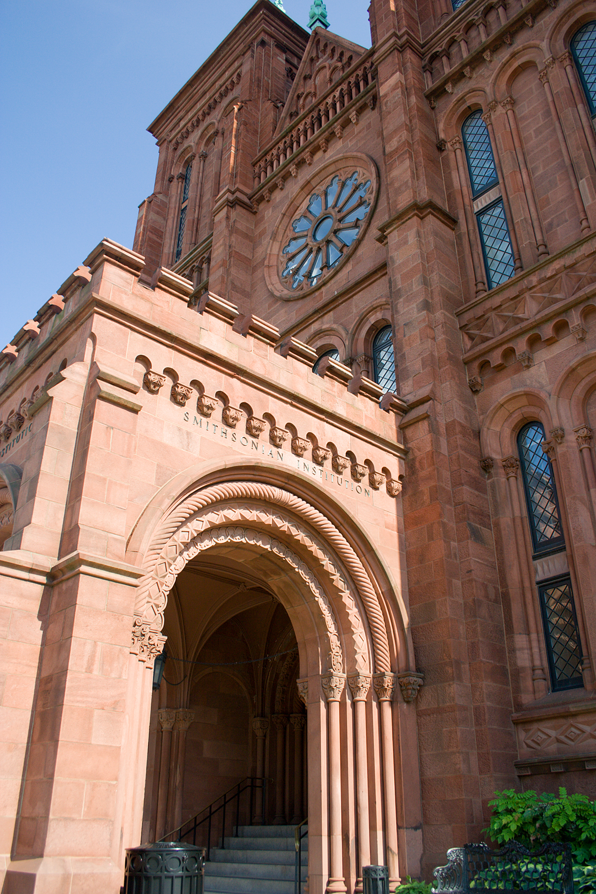 The Smithsonian Castle in Washington, D.C.